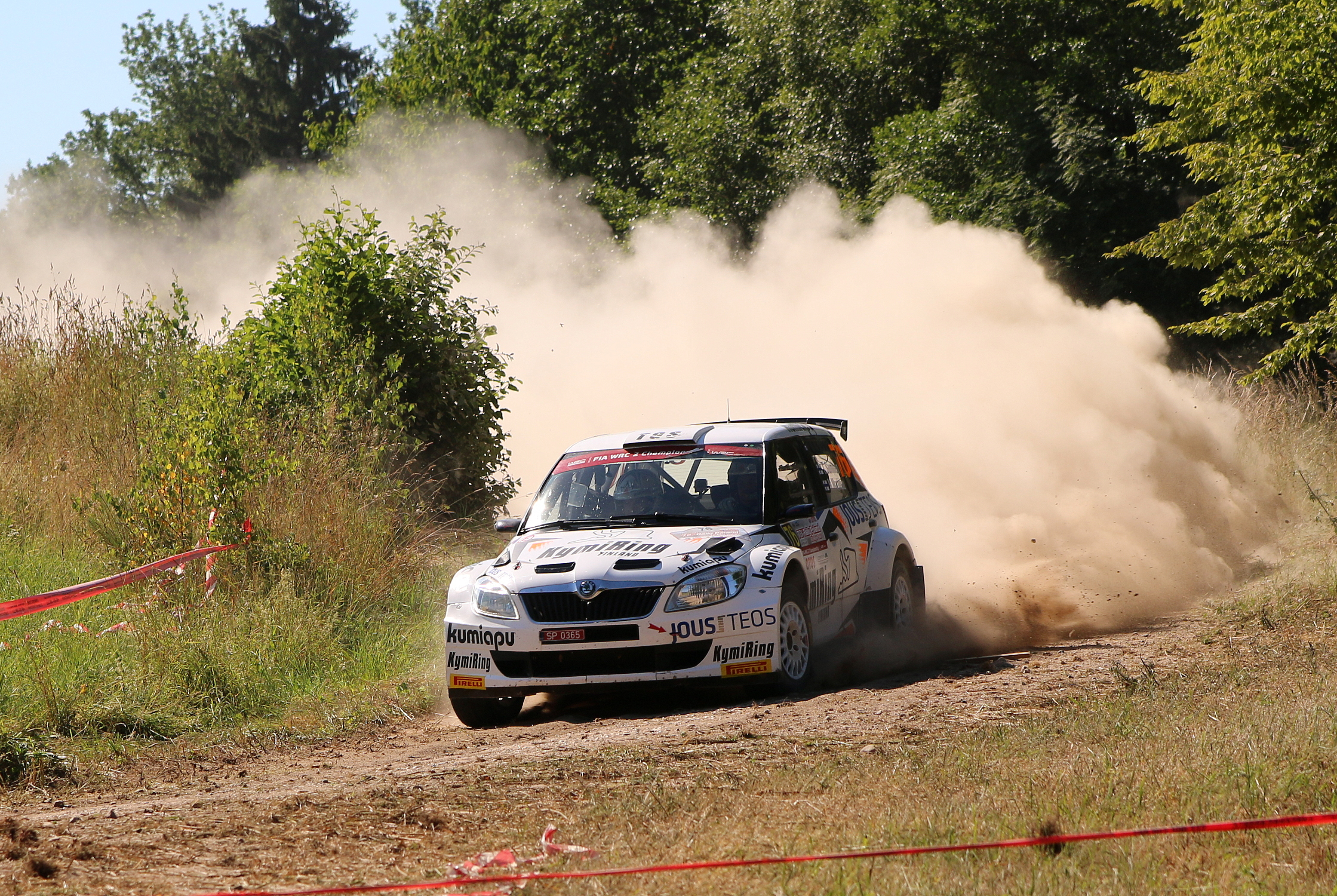 Teemu Suninen, OS 10 Mazury, 72nd LOTOS Rally Poland